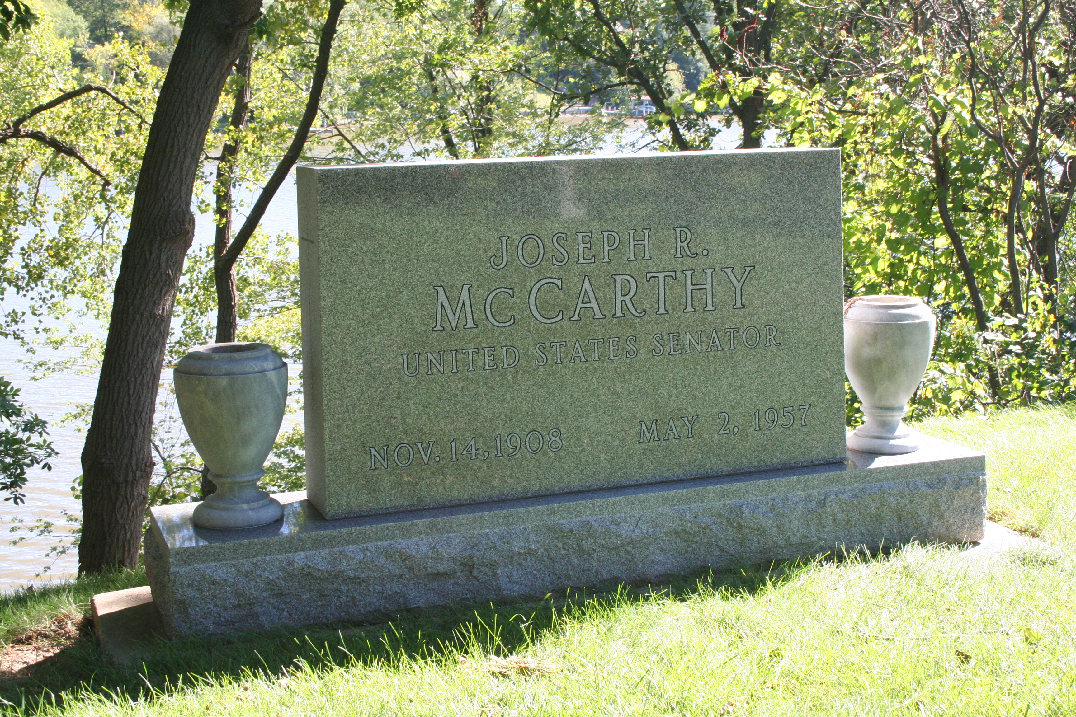 Tombstone of Joseph Raymond McCarthy at St. Mary's Parish Cemetery, Appleton, Wisconsin. The Fox River is in the background.